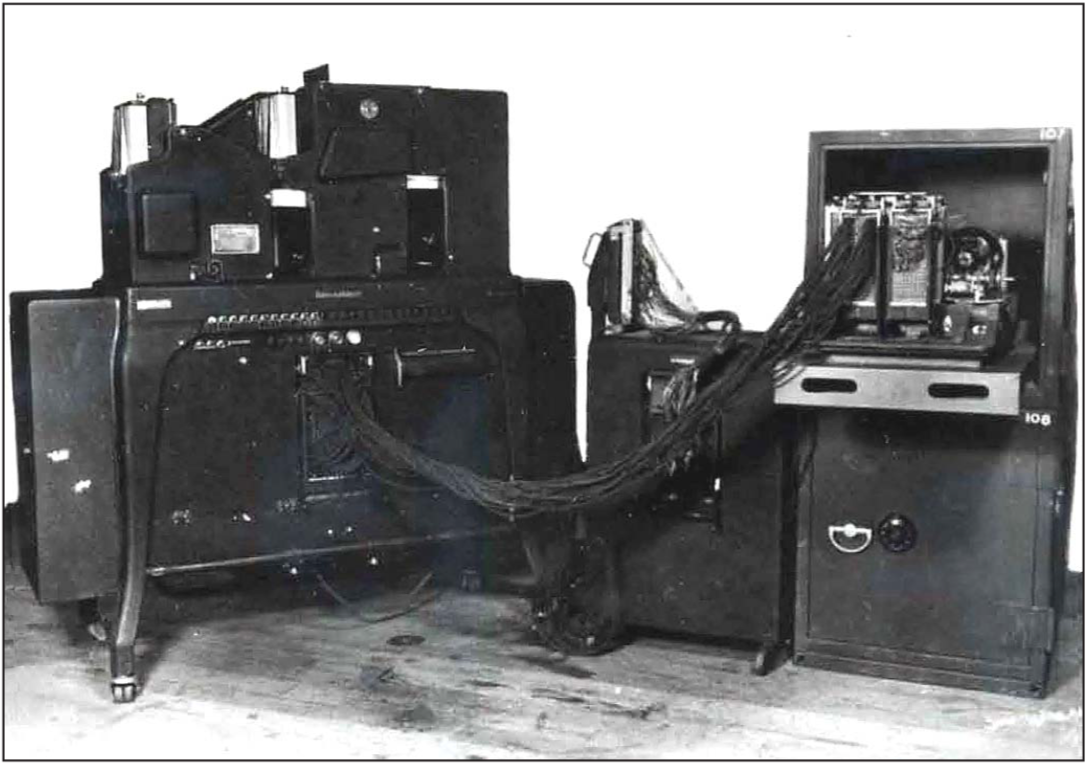 Machine for generating key lists for the SIGABA/ECM II cipher machine used by the United States during World War II and after. It used a rotor device, possibly stored in safe at lower right, to produce random SIGABA settings for each day. The unit on the left is an IBM 513 Reproducing Punch. Connections to the other machines are made via the 513's plugboard. (Compare with